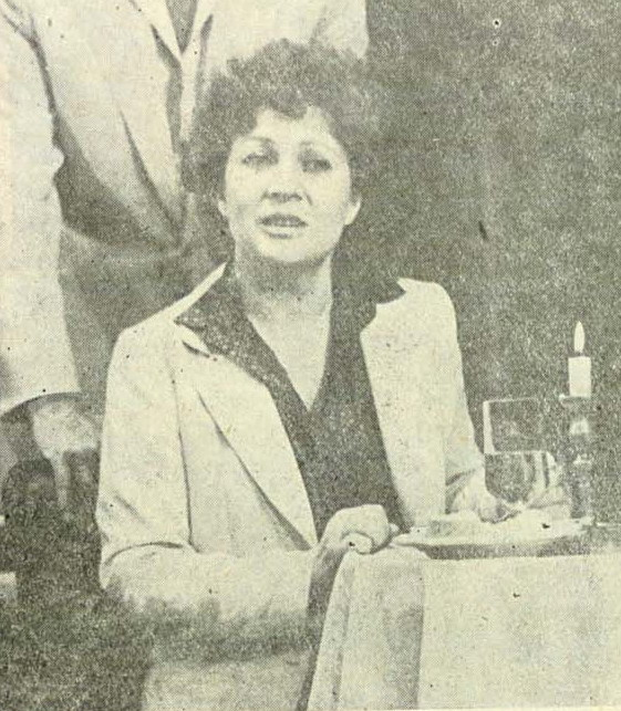 Romanian actress Dorina Lazăr